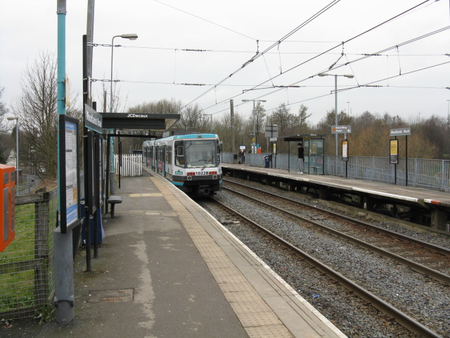 Woodlands Road Metrolink A tram to Bury is leaving.